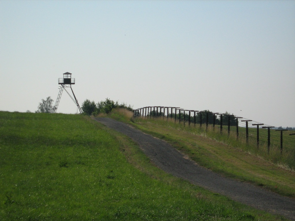 Village Čížov in South Moravia, CZ. The only preserved part of Iron curtain in the Czech republic.